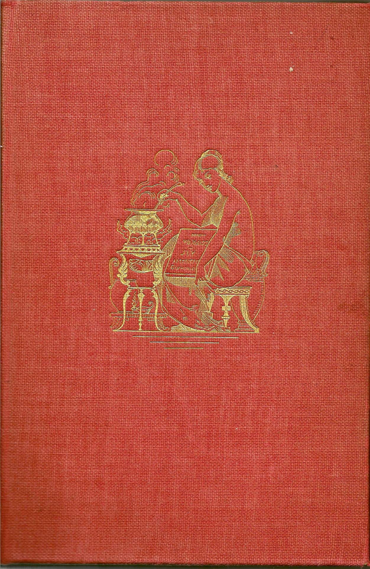 A page from Kokkonsten, a Swedish cookbook